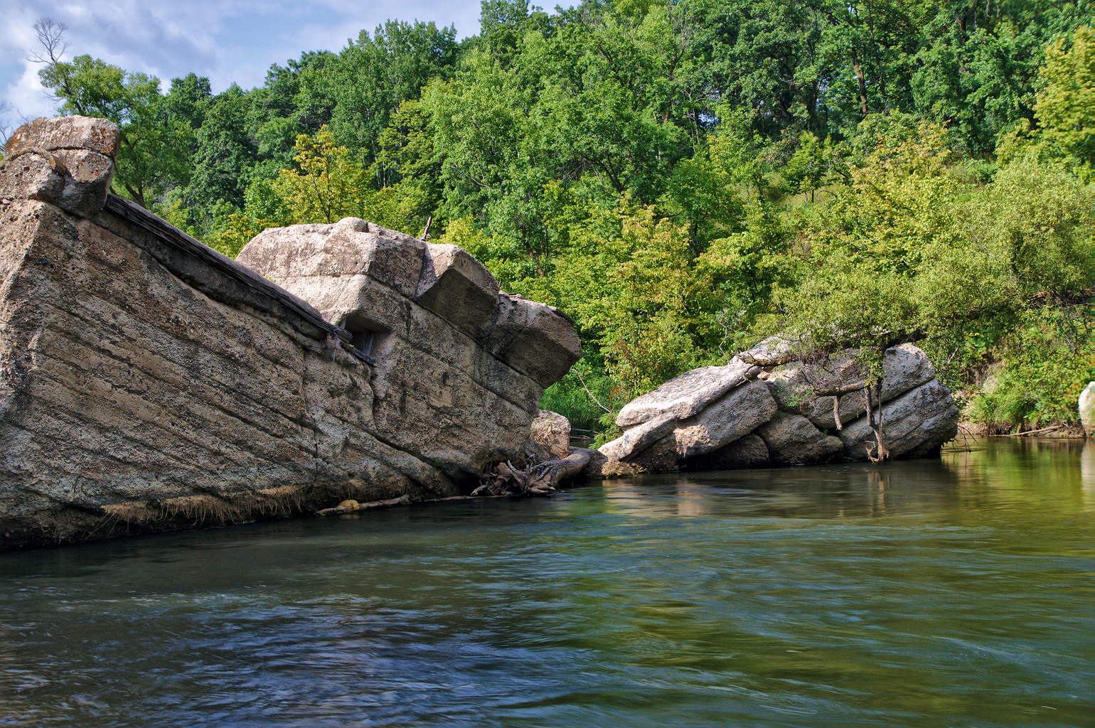 Ruins of the Fergus Falls City Light Station, now known as Broken Down Dam, which collapsed in 1909. Today it forms a recreational feature on the Otter Tail River State Water Trail near the city of Fergus Falls, Minnesota.